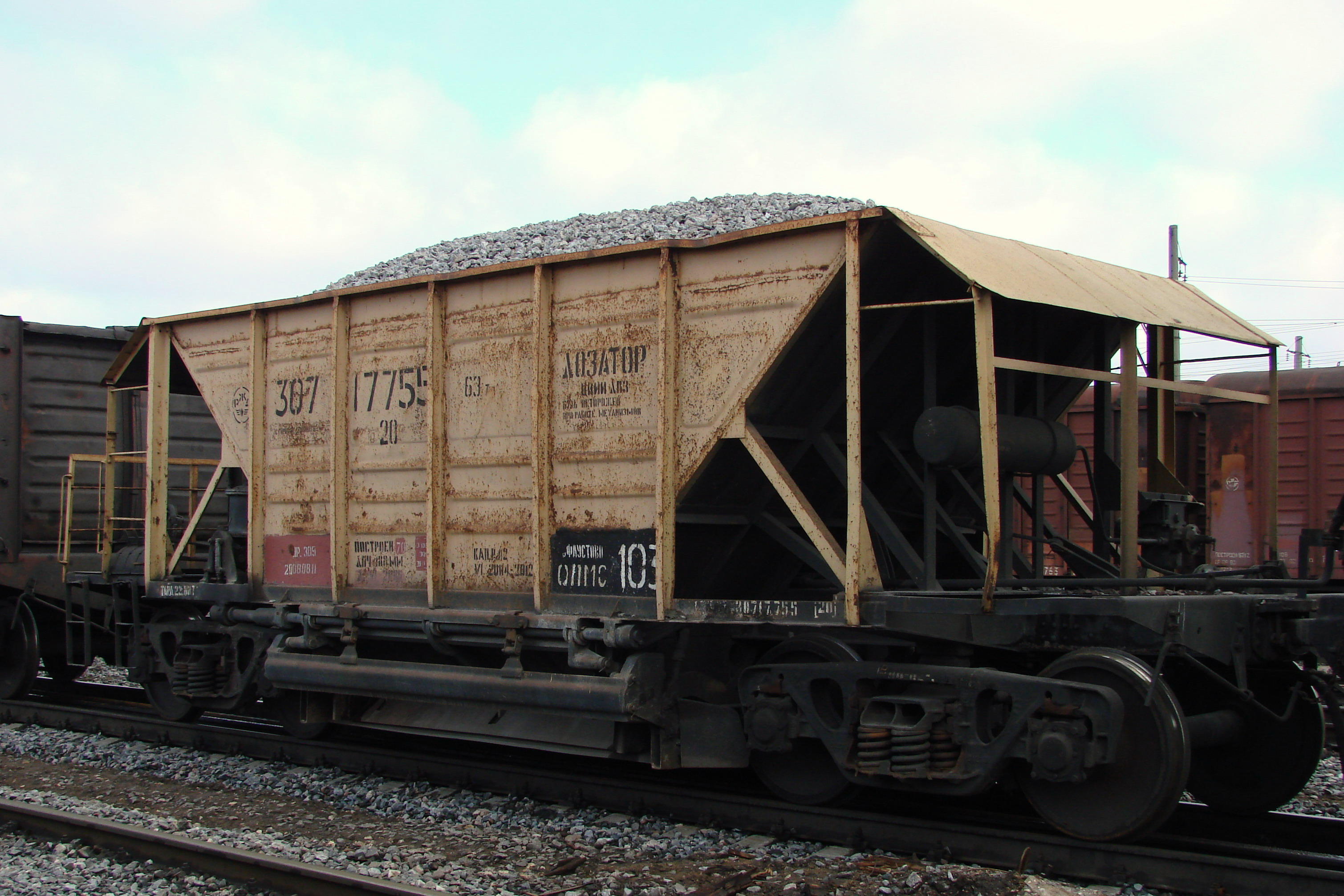 Russian Railways, Hopper car